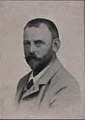 Carl Schlichting-Carlsen (1852-1903), Danish landscape painter